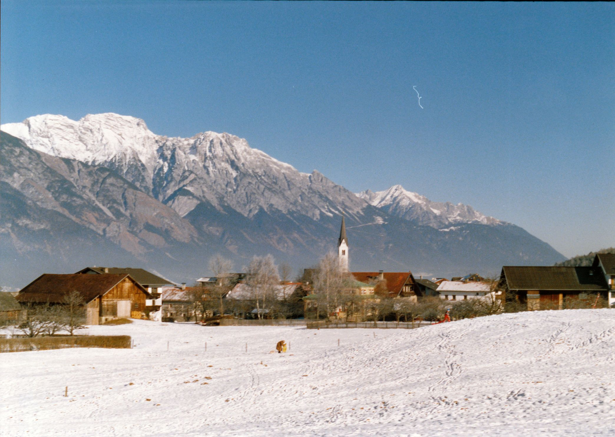 Village (Aldrans) nearby Innsbruck